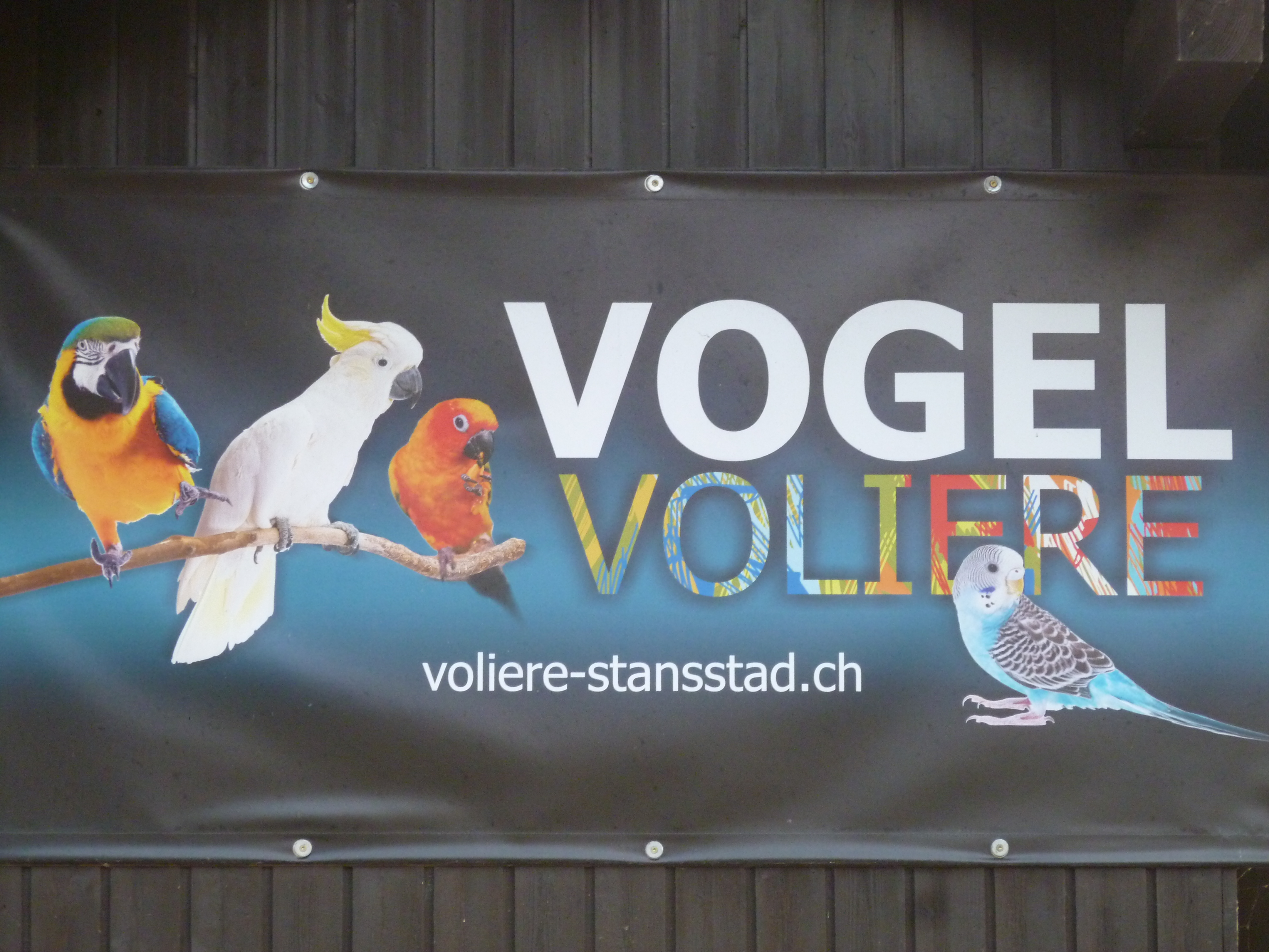 German Pleonasm Example